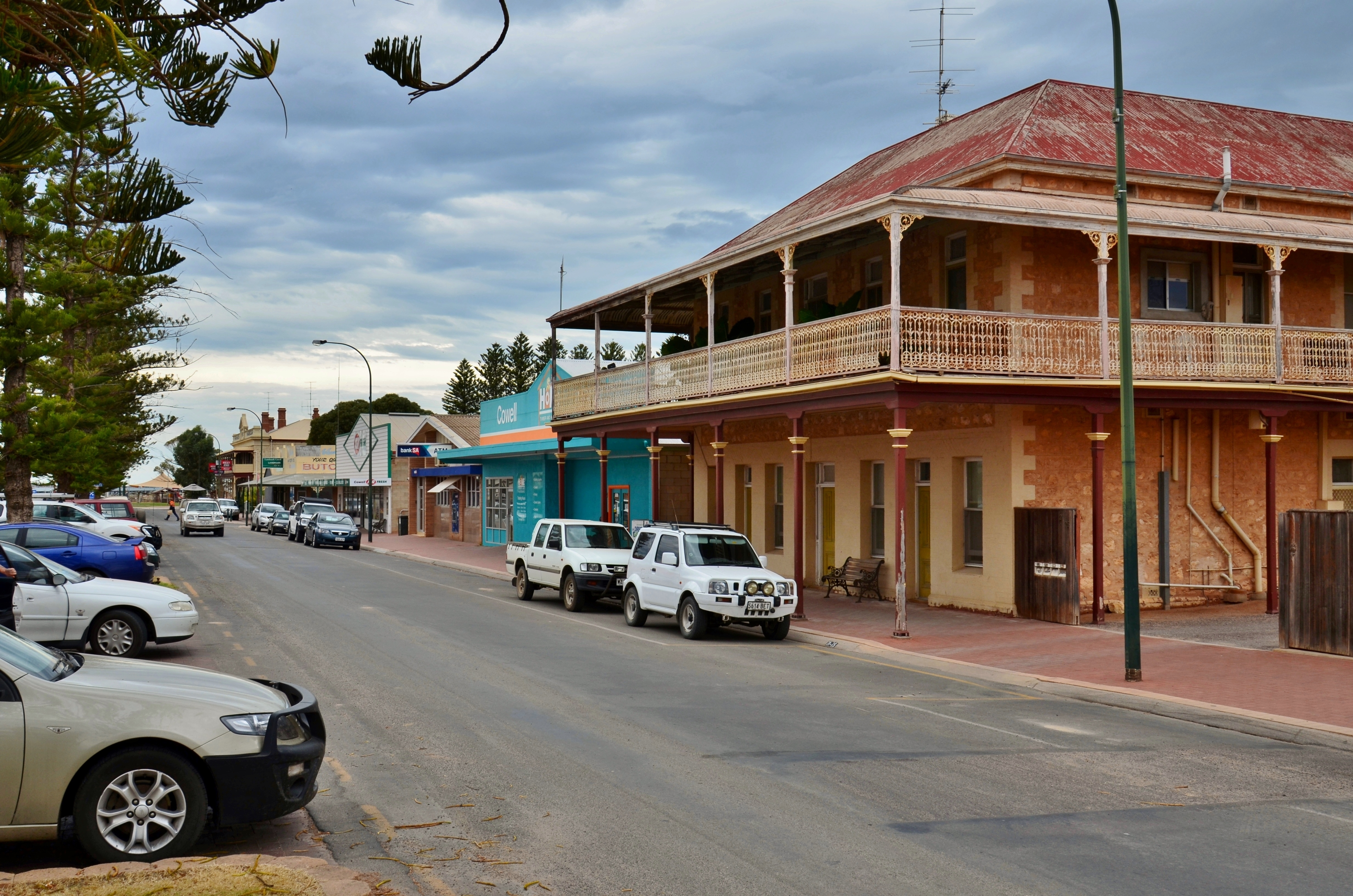 View of Main Street, Cowell, South Australia